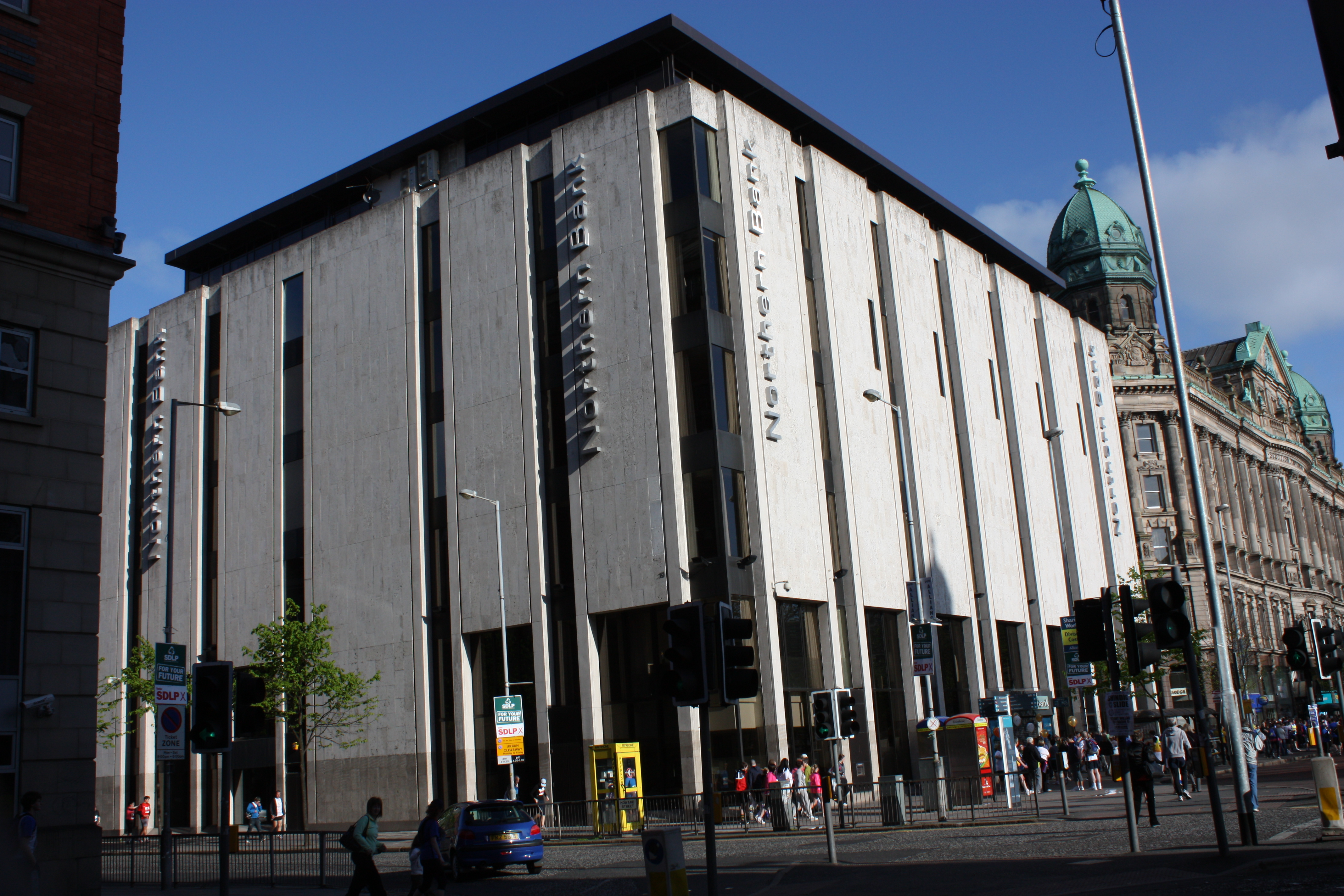 Northern Bank headquarters, Donegall Square West (on the corner with Howard Street), Belfast, Northern Ireland, May 2010